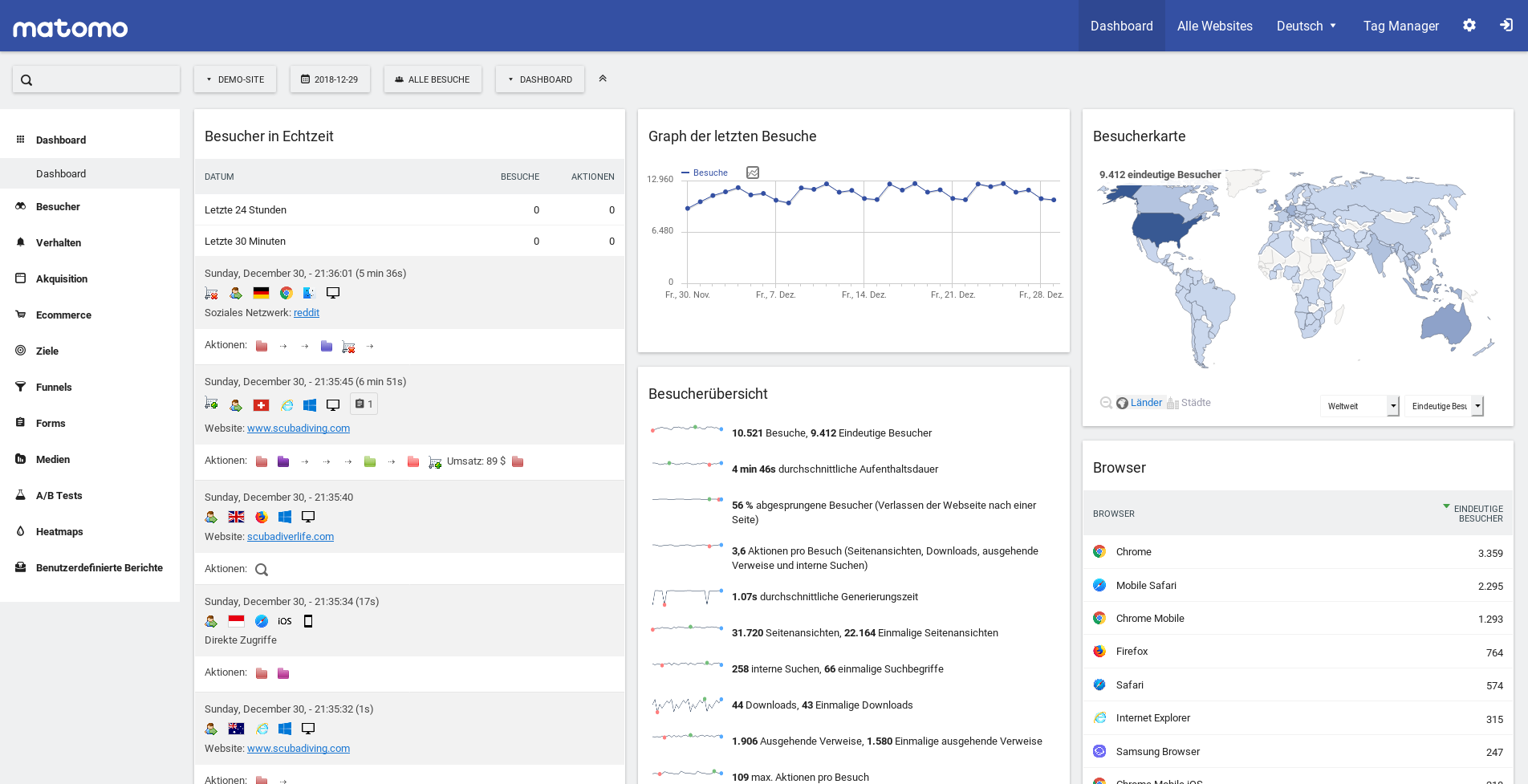 Matomo Dashboard Screeenshot